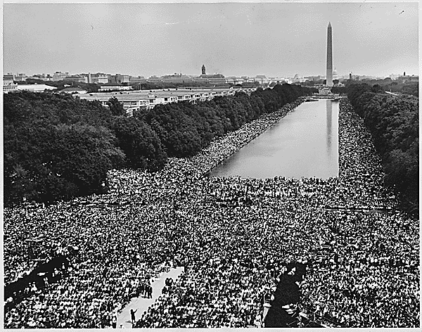 Title: Civil Rights March on Washington, D.C. [A wide-angle view of marchers along the mall, showing the Reflecting Pool and the Washington Monument.], 08/28/1963 U.S. National Archives’ Local Identifier: 306-SSM-4D(80)10 From: Record Group/Collection: 306 Record Hierarchy Level: Item Reference Unit: Still Picture Records Section Persistent URL: Repository Contact Information: Still Picture Records Section, Special Media Archives Services Division (NWCS-S), National Archives at College Park, 8601 Adelphi Road, College Park, MD, 20740-6001 For information about ordering reproductions of photographs held by the Still Picture Unit, visit: Reproductions may be ordered via an independent vendor. NARA maintains a list of vendors at Access Restrictions: Unrestricted Use Restrictions: Unrestricted